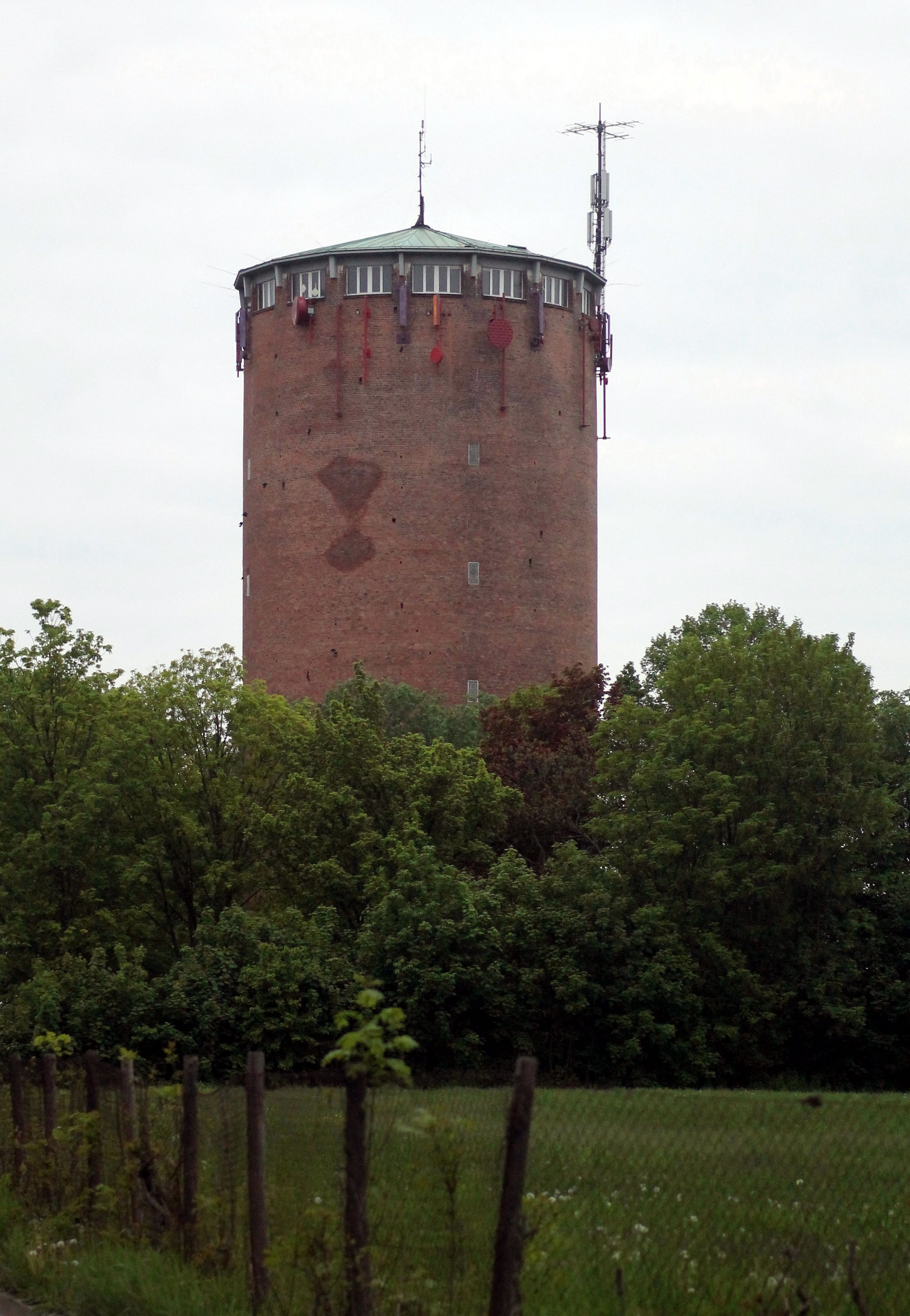 Ludwigsburg-Fürstenhügel Water Tower